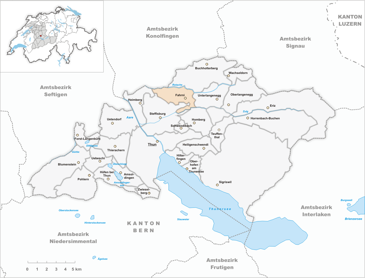 Municipality Fahrni